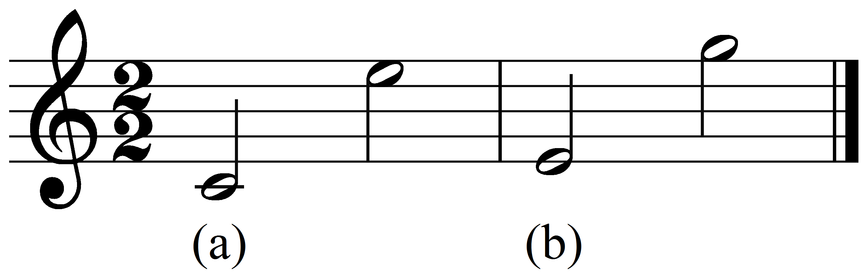 Example of major and minor tenths